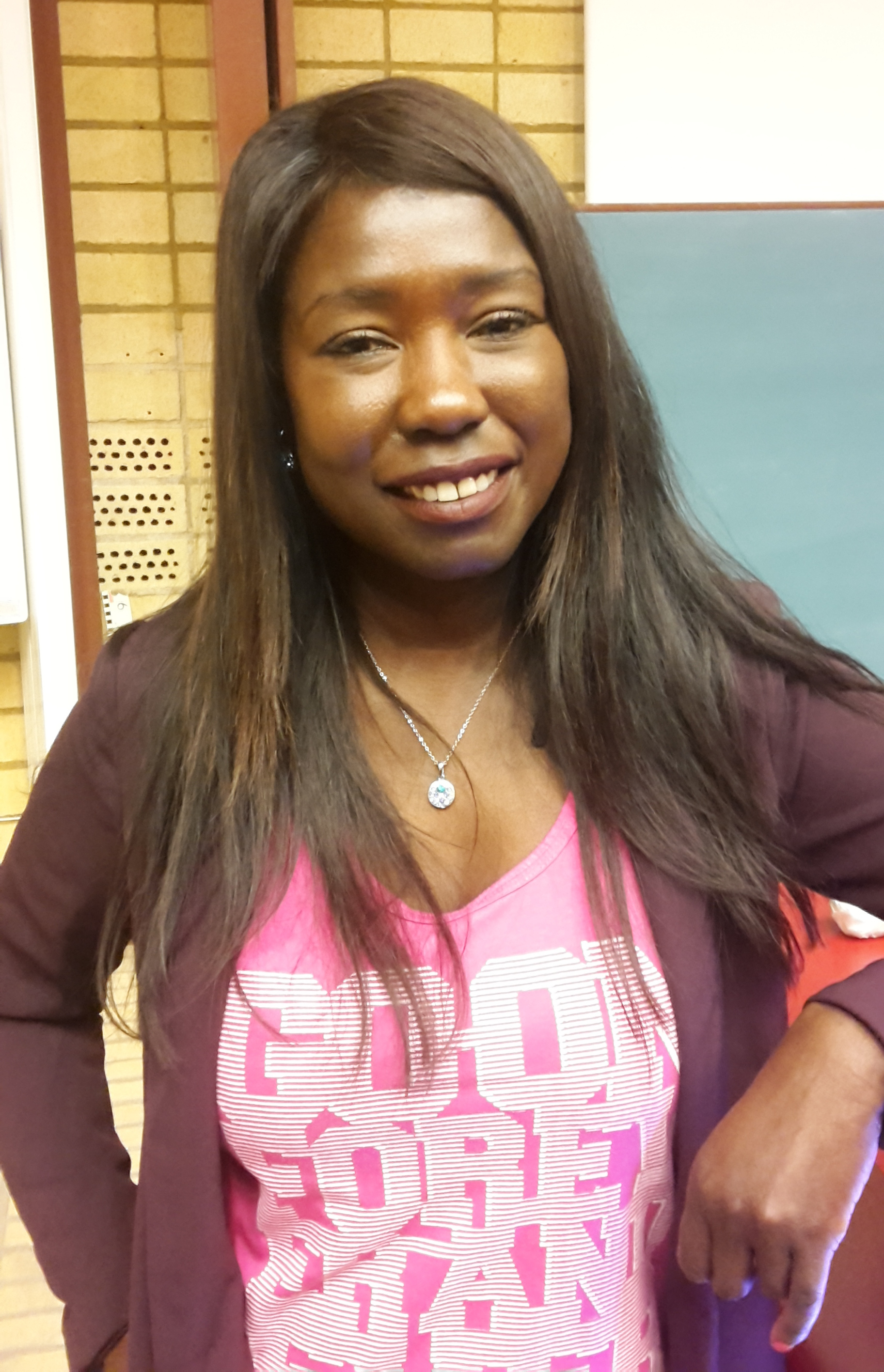 Victoria Kawesa after giving a lecture in Ekonomikum (Uppsala University) on 31 March 2017